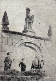 Alcobaça, Portugal, Mosterio de Alcobaça, Abbey: Coutos de Alcobaça, Arco da Memória, near of Alvoninha, removed 1912, was marking the territory of the Abbey